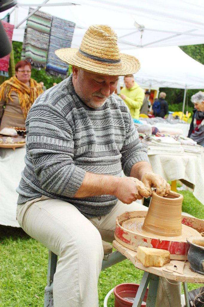 Latgalian potter Valdis Pauliņš at the Latgalian Culture Days in Saint Petersburg